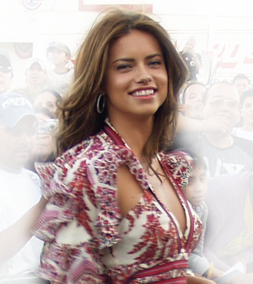 Brazilia model Adriana Lima